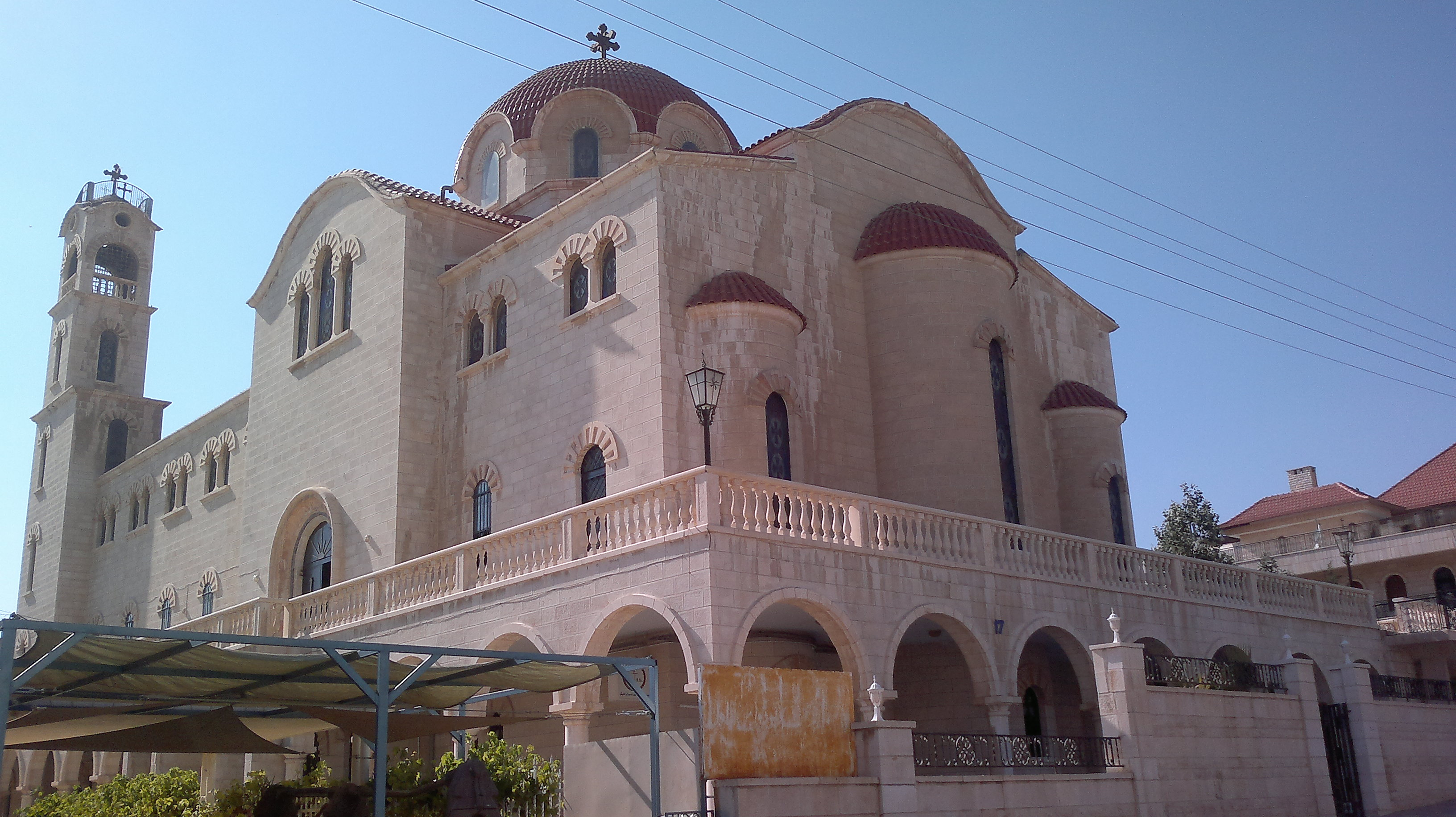 Abdoun Church, Amman